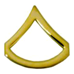 United States Army Private First Class Rank Insignia